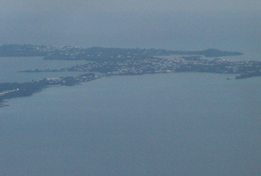 Somerset Island, Bermuda, from the air, looking to the South, over Mangrove Bay. The Great Sound is visible at left centre. At far left is Boaz Island. Moving right, Watford Island and Watford Bridge are visible, joining to Ferry Point, at the North East tip of Somerset Island. Somerset Village is visible at the south of Mangrove Bay. King's Point is also visible, at the west side of the bay (the right side of the photograph). Ely's Harbour, Wreck Hill, and Wreck Point are visible at the right side of the photograph, beyond Somerset Island, with the Main Island of Bermuda continuing Eastwards.